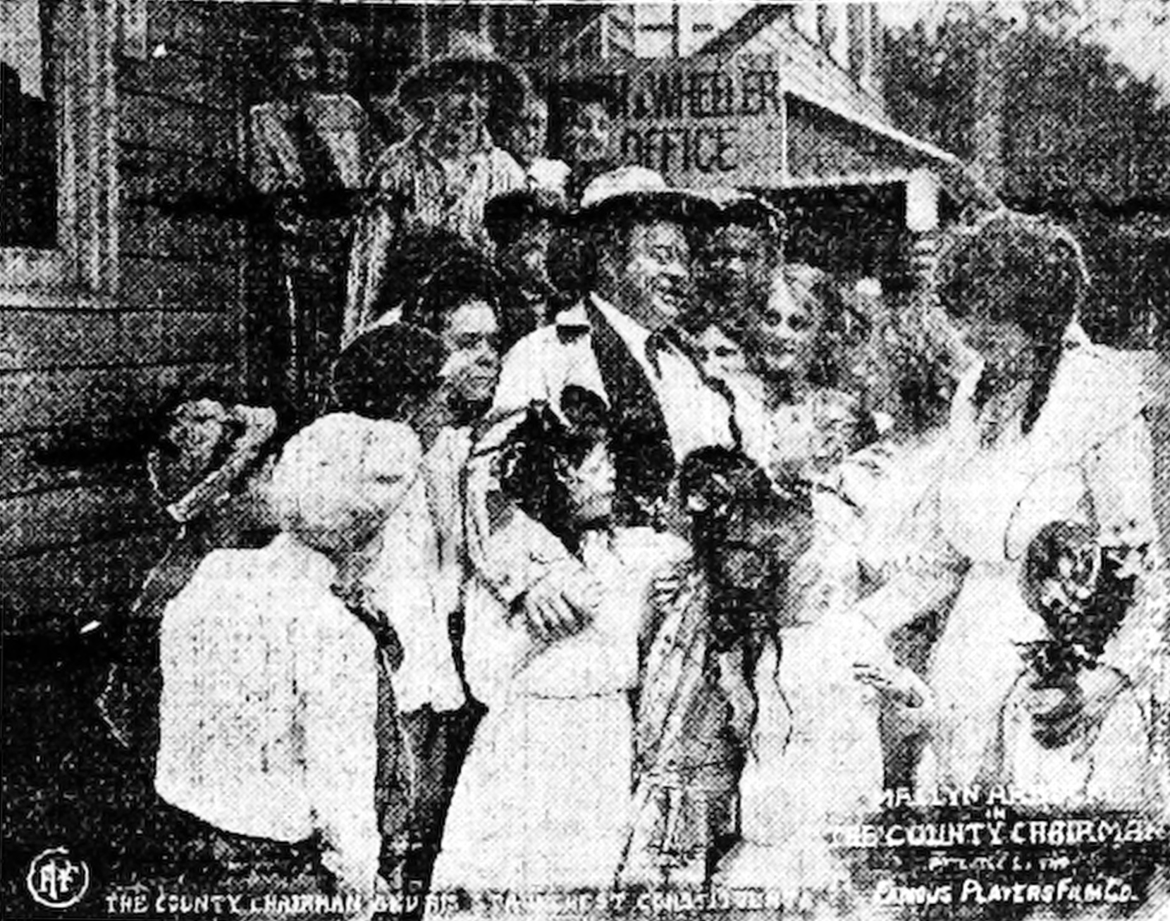 The County Chairman is a lost 1914 silent film drama directed by Allan Dwan, produced by the Famous Players Film Company and distributed through Paramount Pictures. This is a scene from the film printed in a newspaper of the time.